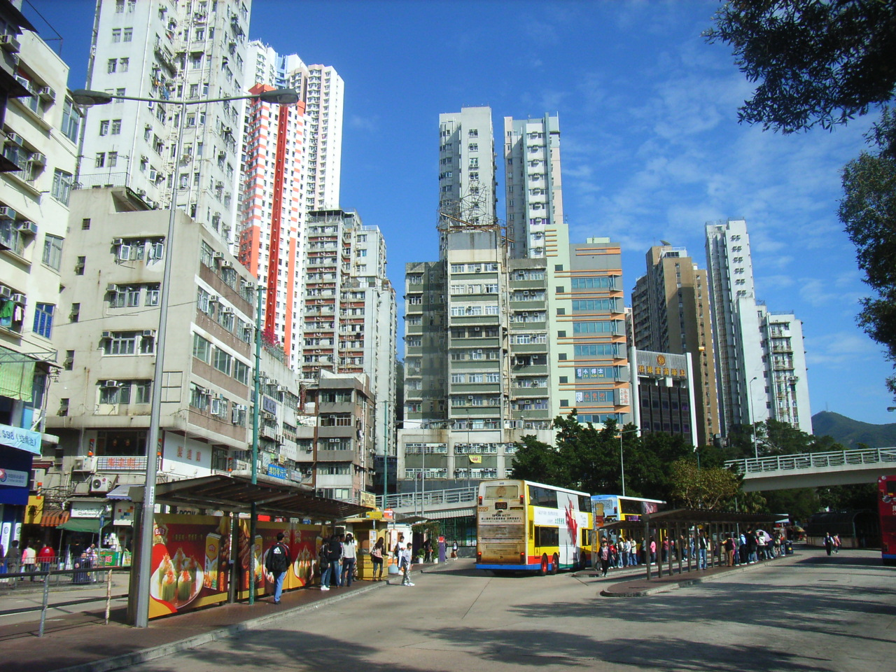 香港島南區 香港仔巴士總站